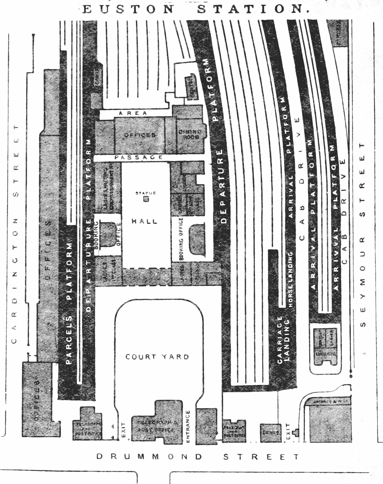 Plan of Euston railway station as it was in 1888. The earliest part of the station (dating to its opening in 1837) are the four tracks to the east (right) of the Departures platform to the right of the hall, and the famous Doric arch, located over what is marked in the plan as the Entrance to the courtyard. The Great Hall and western departure platform were added in 1849, and the further arrivals platforms in the 1870s. Additional platforms were created in the 1890s with a major expansion to the west (left) of the station, and by filling in one of the carriage sidings on the arrivals side of the station to create a further two platform faces. The plan can be compared with a plan of Euston in 1938, and an aerial view from 1936. (Both copyright-expired in the UK (unknown creator: publication+70), but still copyright in the United States until the 2030s (URAA restoration, corporate work: publication + 95), so not uploadable to Wikipedia). Different phases of the station's evolution are marked by different types of roof-line. A detailed history is given in the Survey of London coverage (1949), vol. 21, pp 107–114